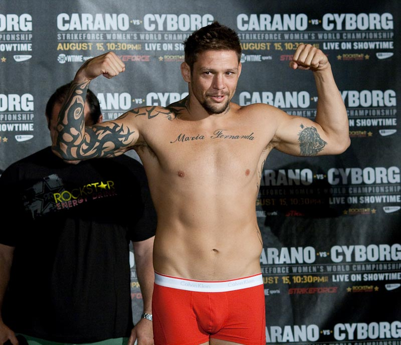 Brazilian mixed martial artist Renato "Babalu" Sobral at the weigh-in before the Strikeforce: Carano vs. Cyborg event.